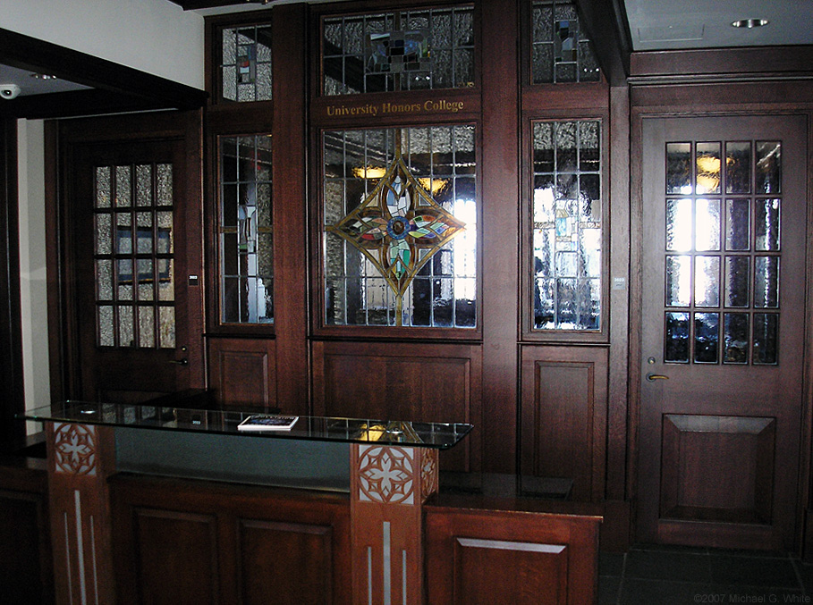 University of Pittsburgh Honors College photo by Michael G White